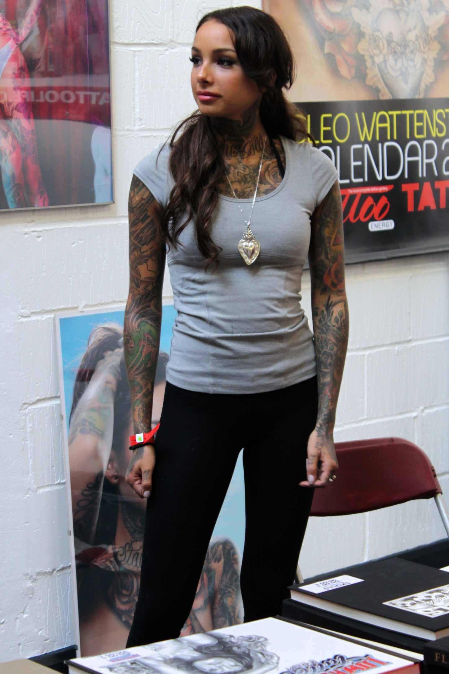 London Tattoo Convention 2013.